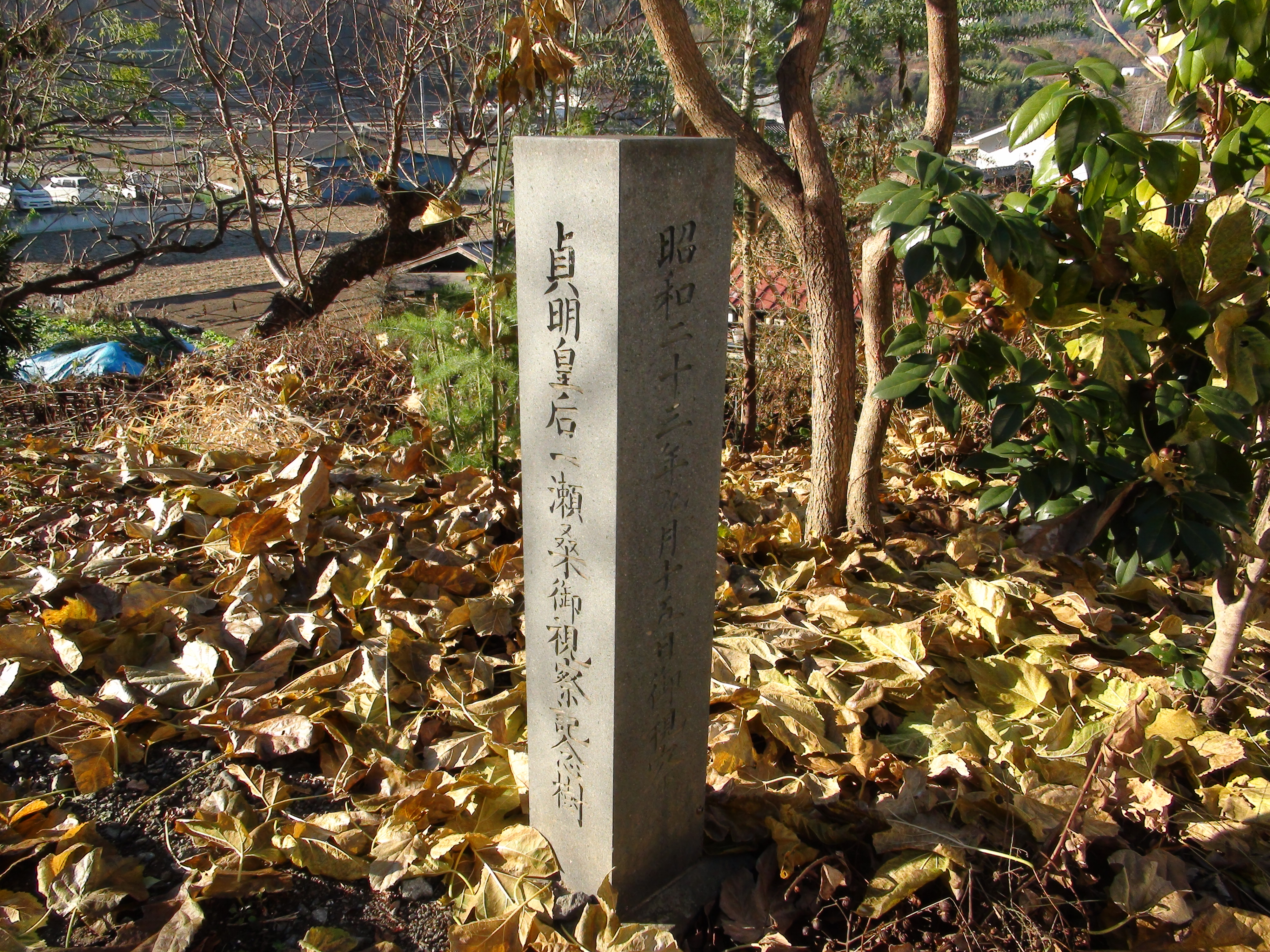 Empress Teimei planted the Ichinose mulberry monument